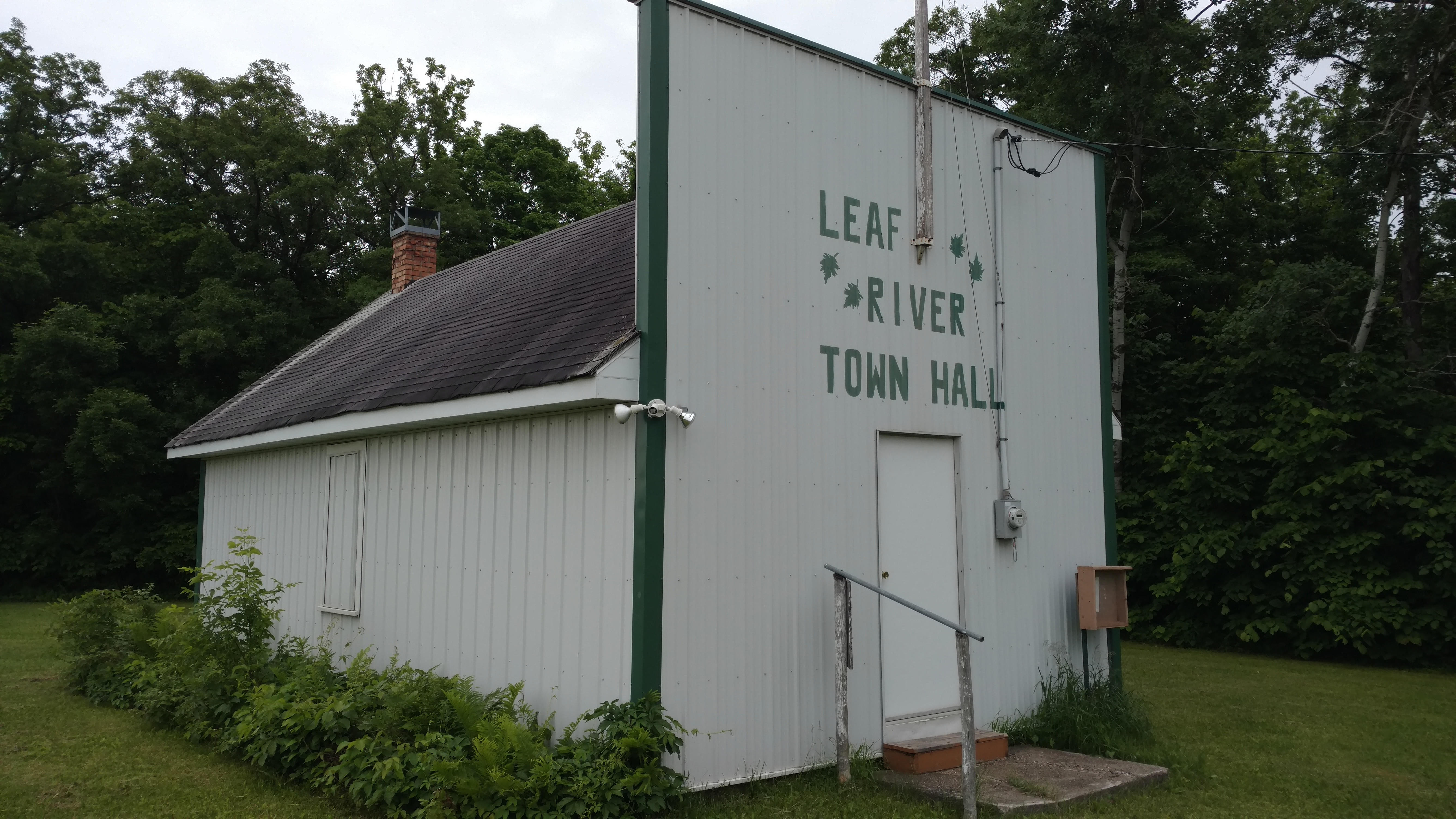 The town hall in Leaf River MN